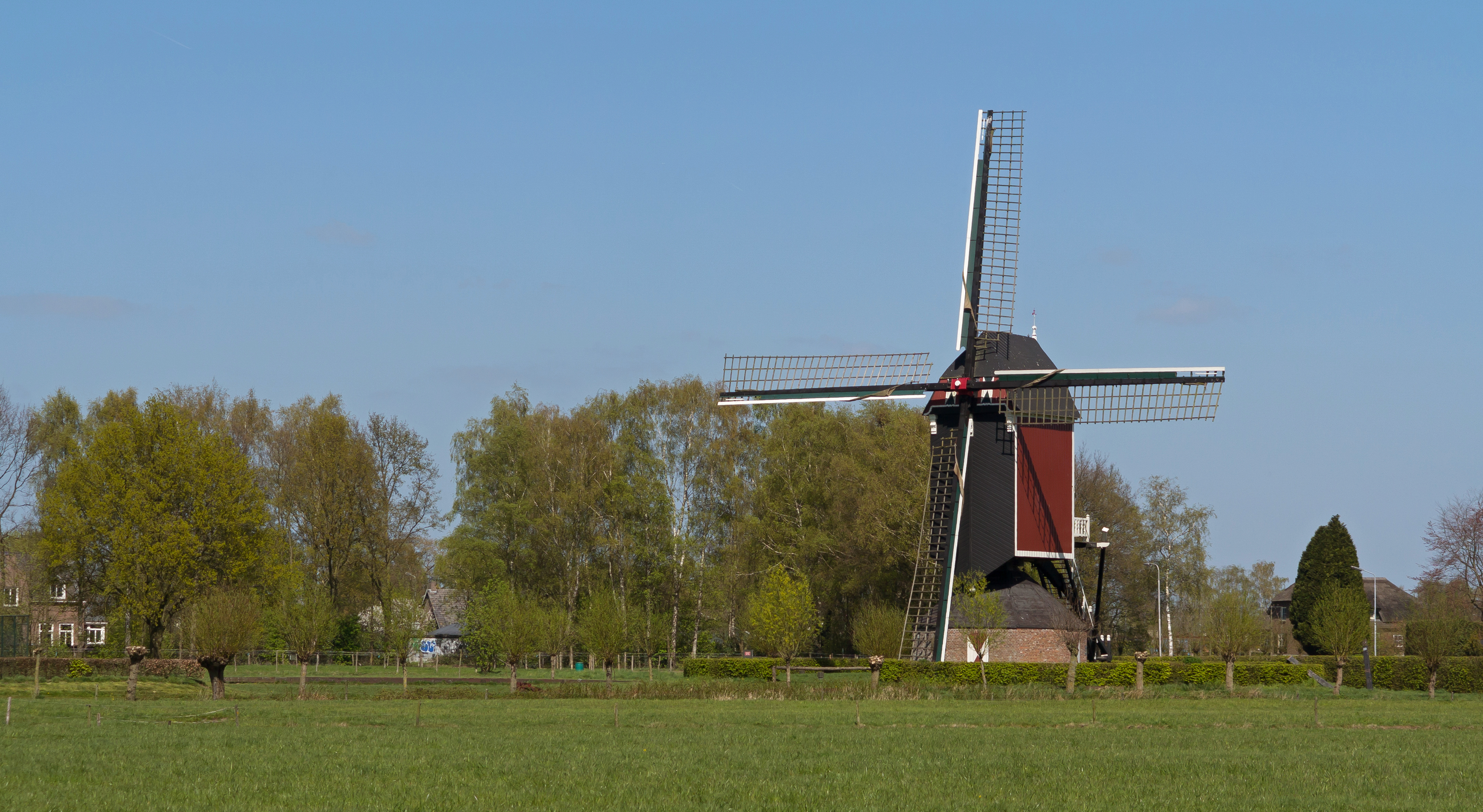 Geffen, windmill: standerdmolen de Zeldenrust